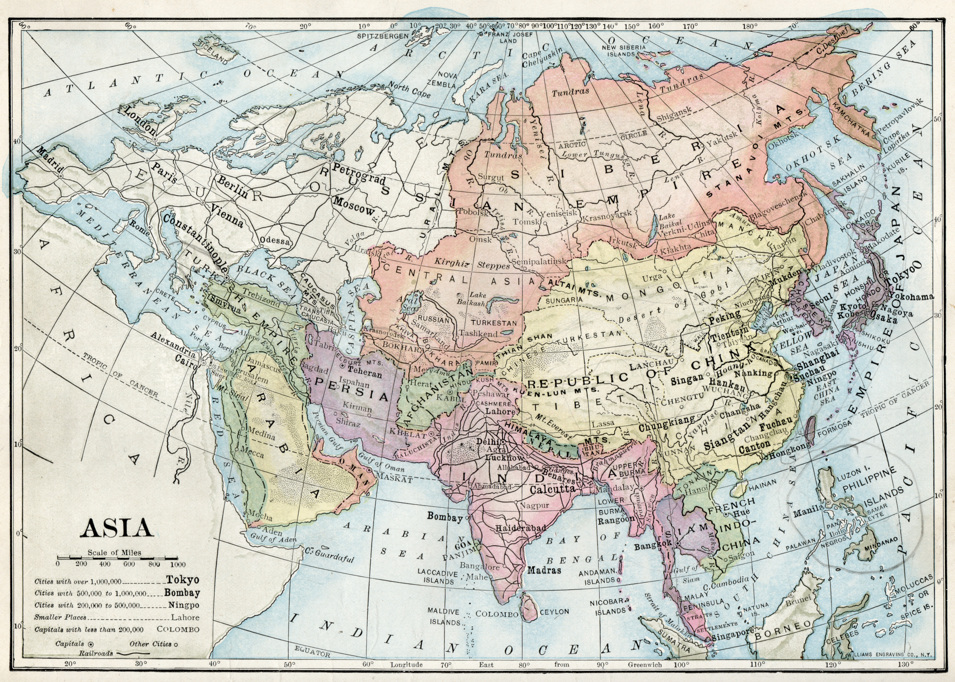 A political map of Asia published in a geography textbook in 1916.